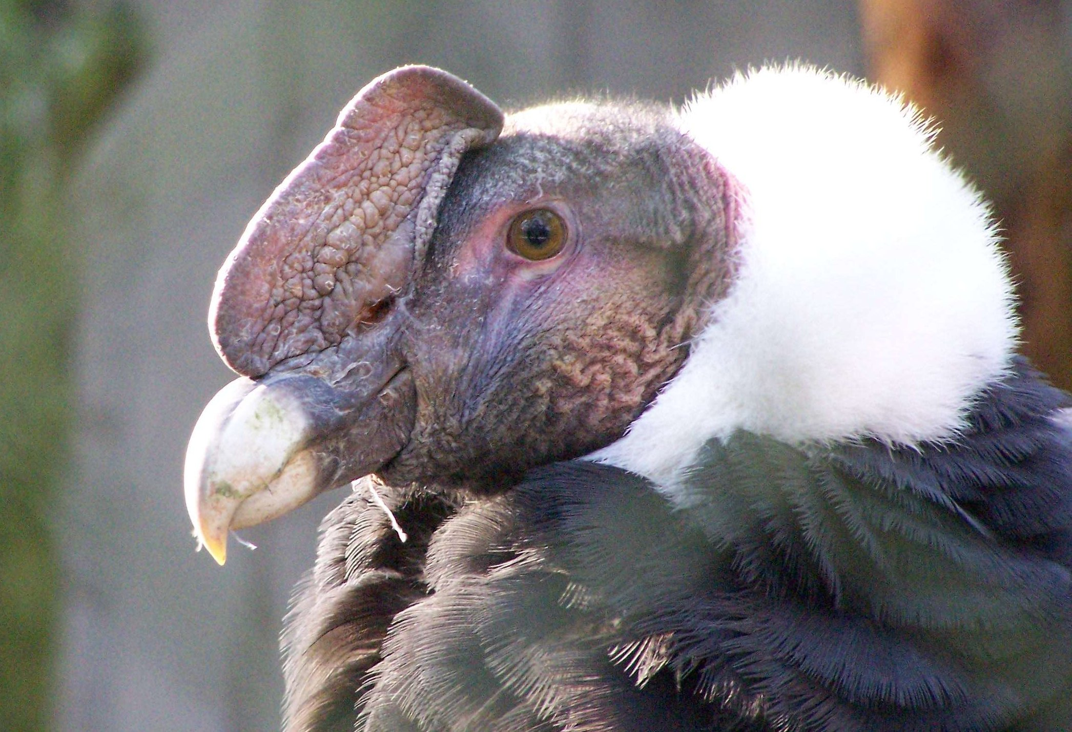 An adult male Andean Condor